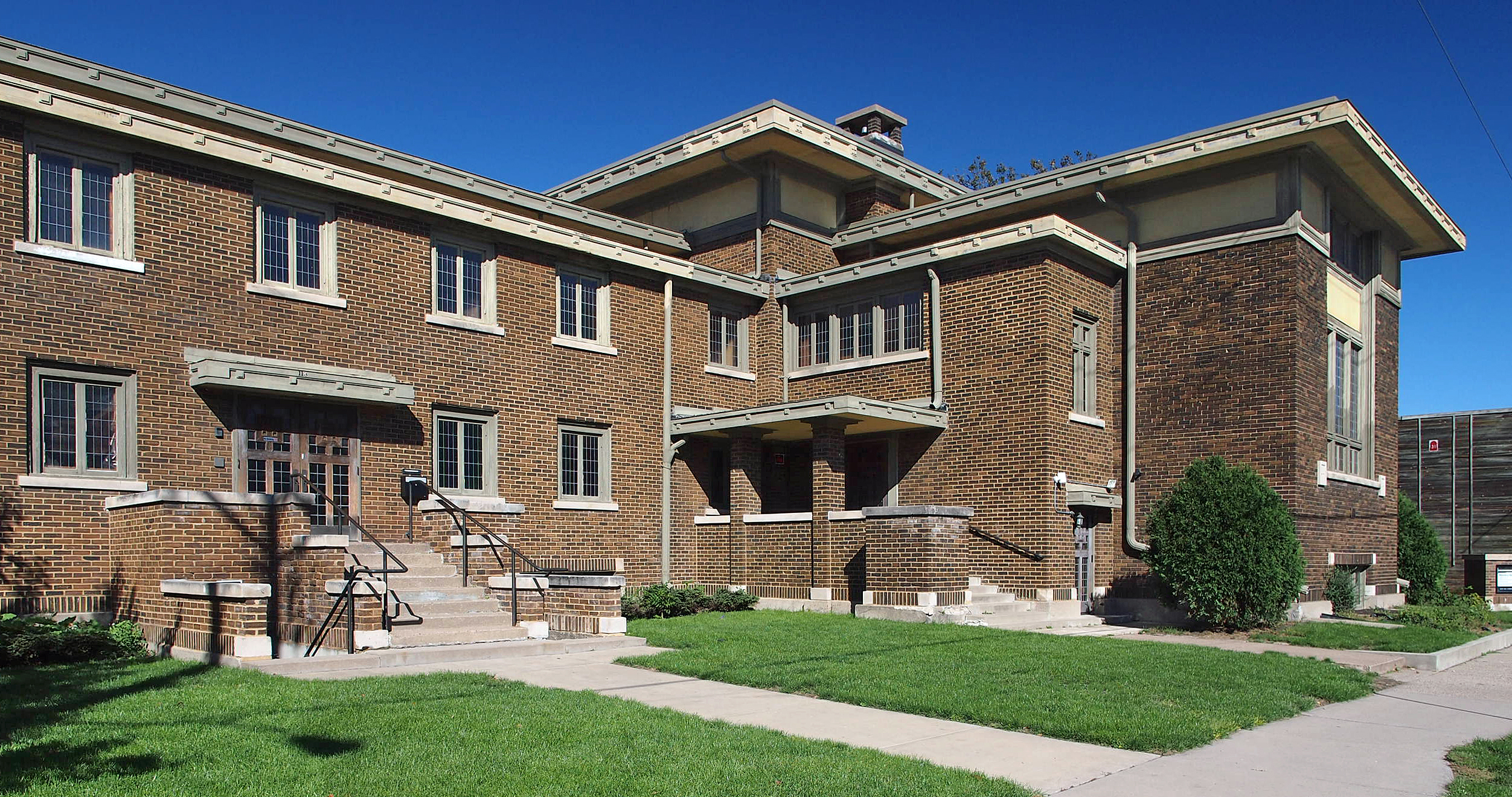 Stewart Memorial Presbyterian Church, 116 E 32nd St, Minneapolis, Minnesota, USA. Viewed from the southwest.